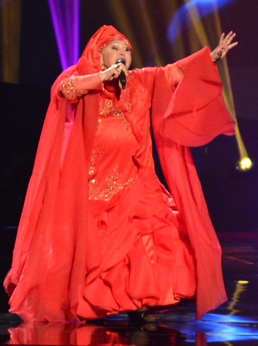 Есма Реџепова - Esma Redžepova. Macedonian Romani singer born in 1943. On stage at the 2013 Eurovision Song Contest.